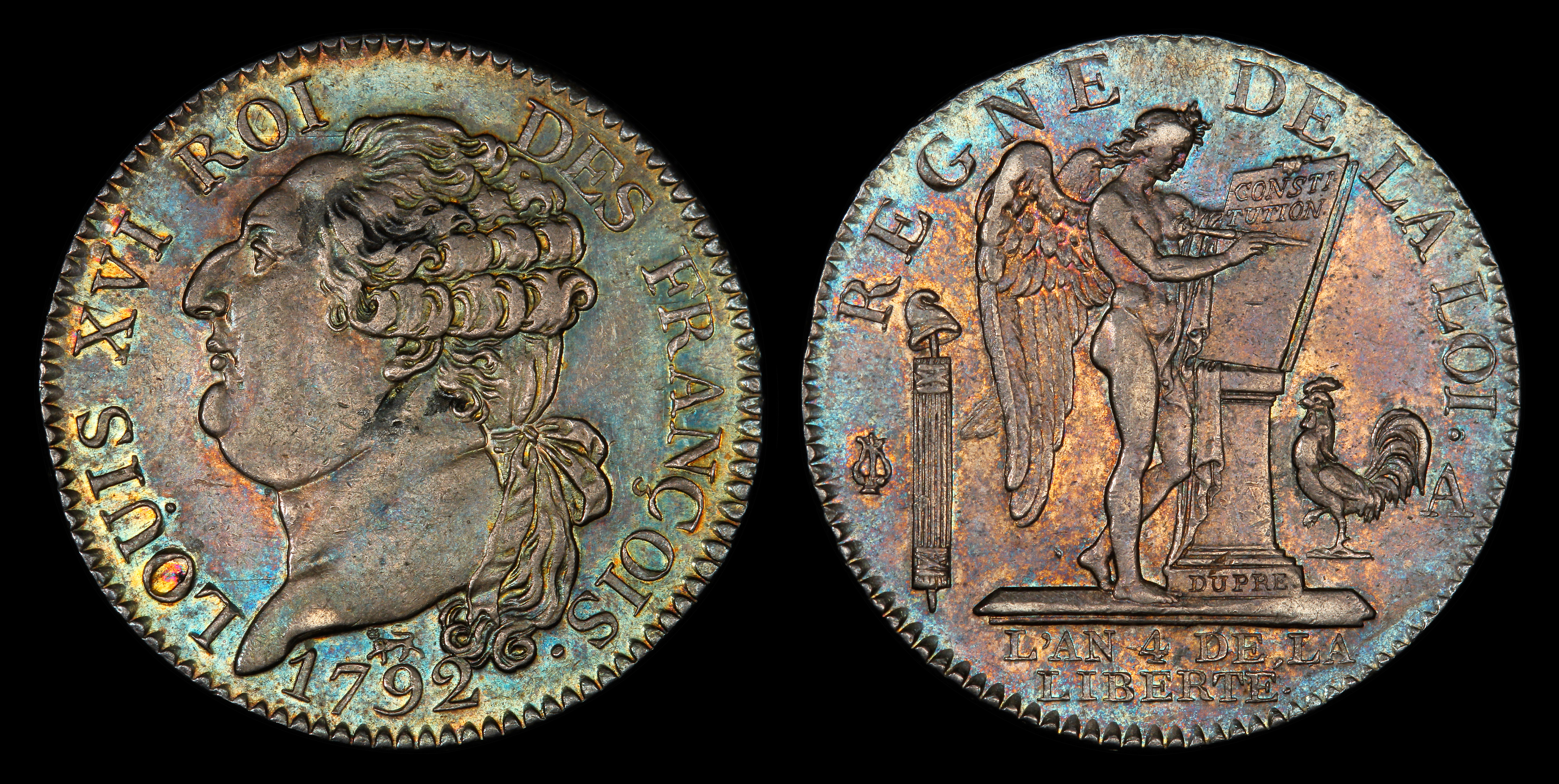 Kingdom of France, half Écu, silver (1792). Louis XVI of France is depicted on the obverse with the "winged genius" designed by Augustin Dupré on the reverse. Iridescent rainbow toning.